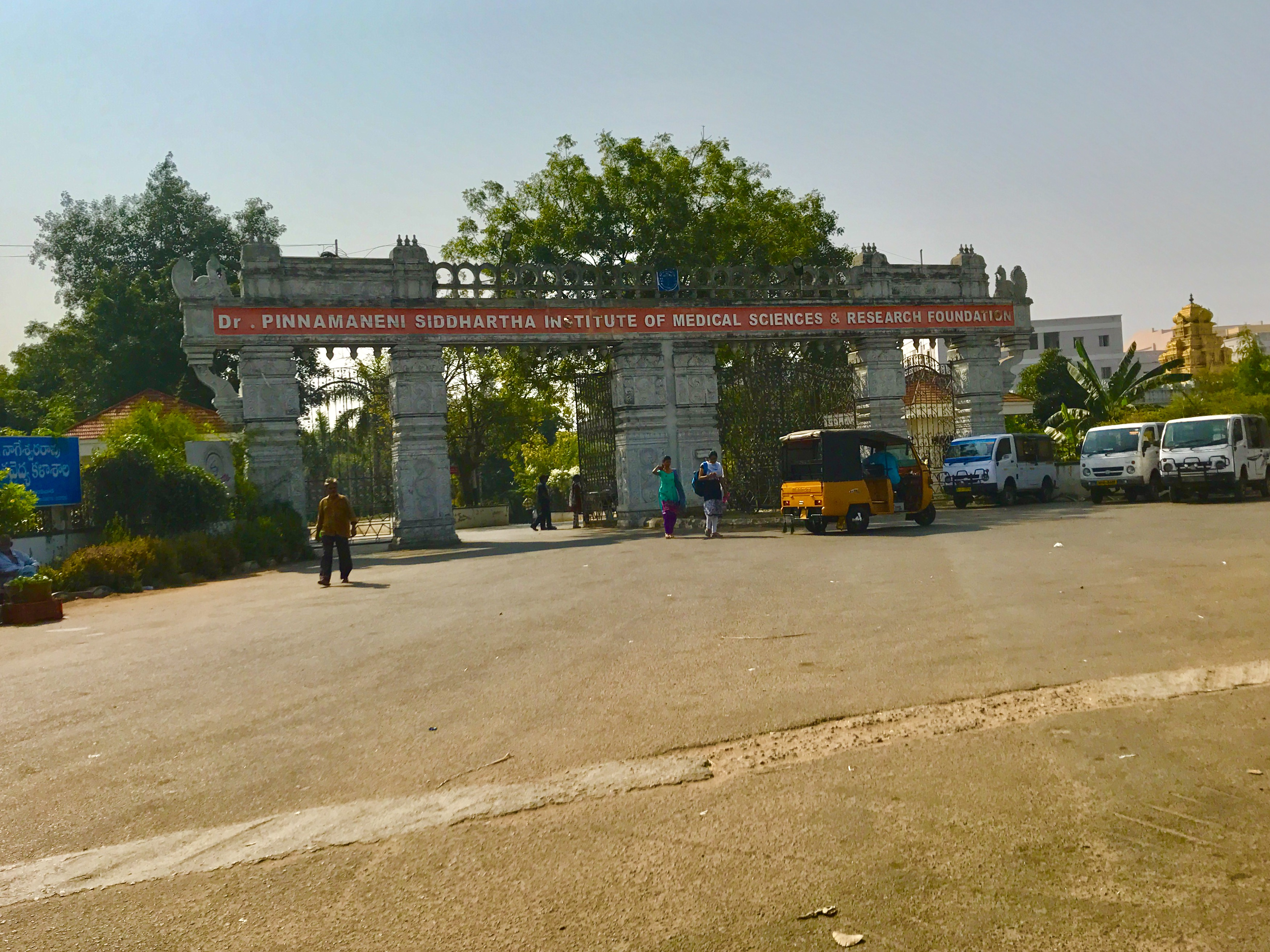 Pinnamaneni college near China Avutapalle